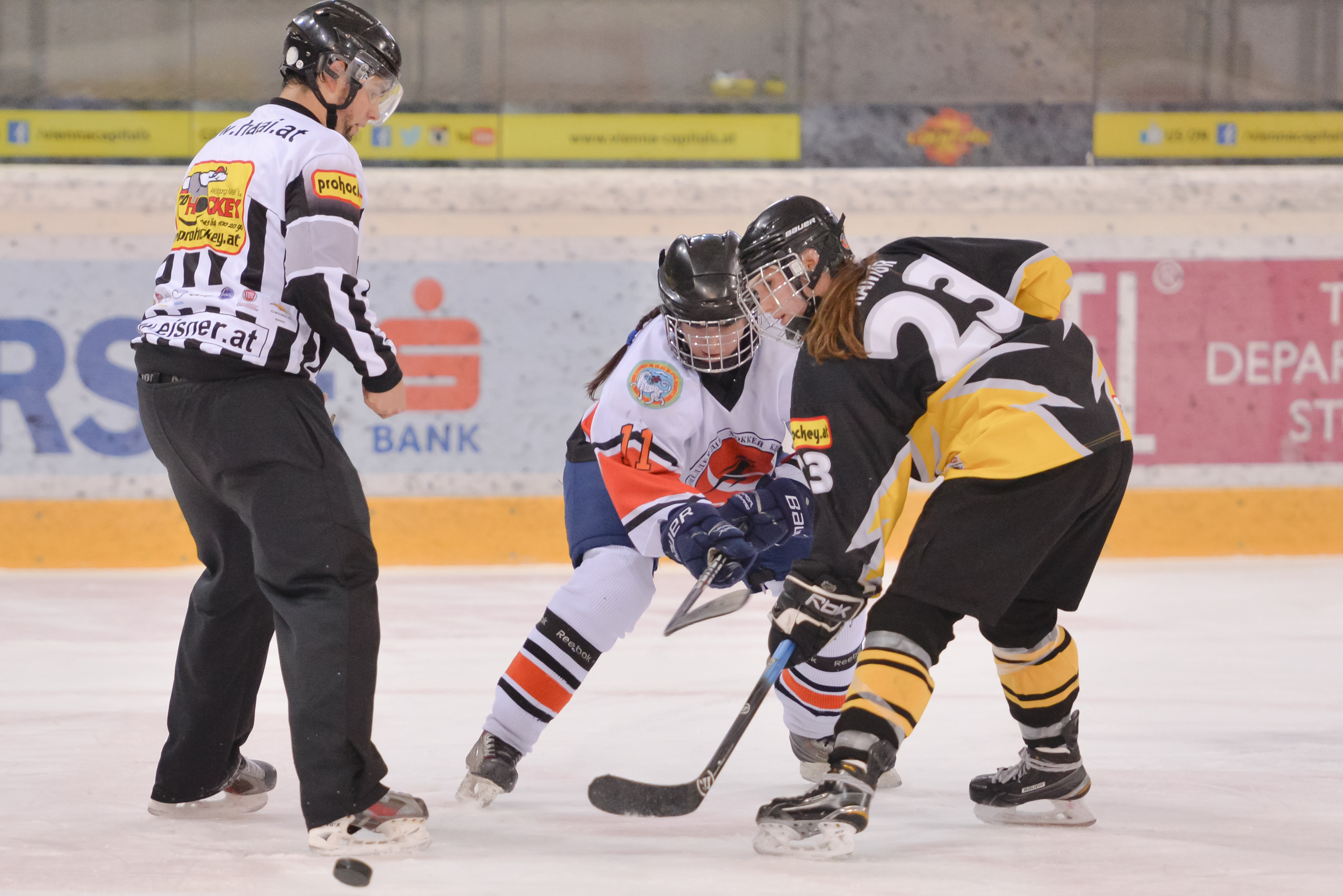 Elite Women’s Hockey League Aisulu Almaty vs. Sabres Vienna 2016-01-24